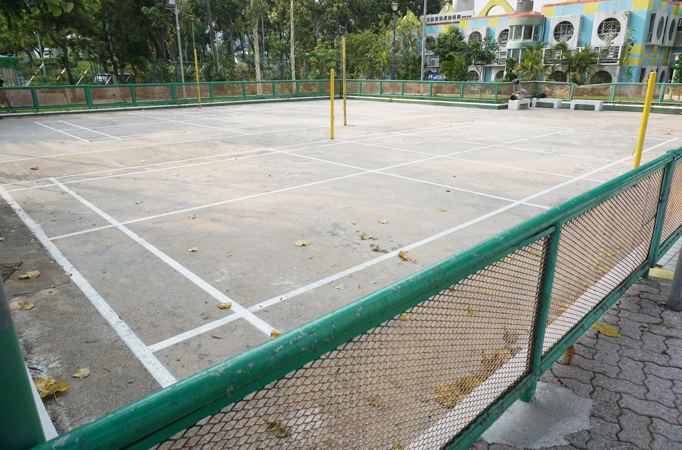 Affluence Garden in Tuen Mun, Hong Kong.